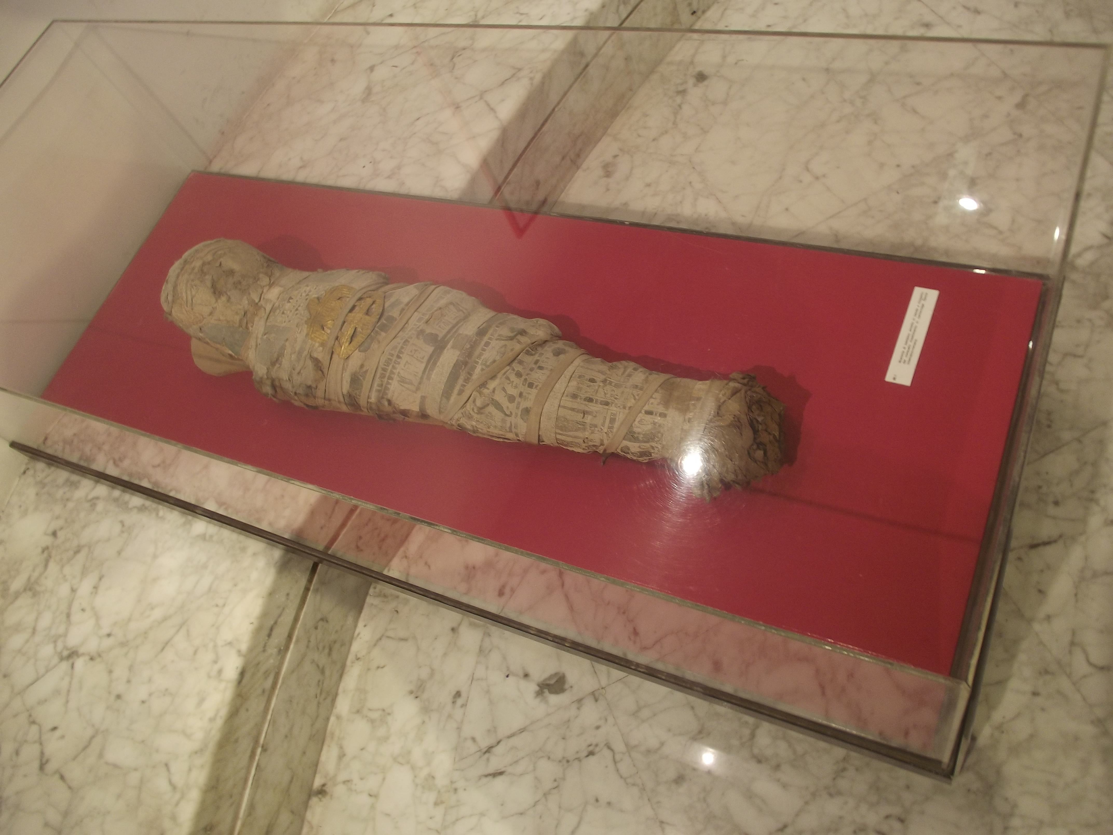 Museo Archeologico Nazionale di Napoli - The Egyptian Collection - A small mummy.